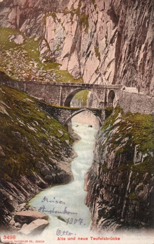 Postcard Old and New Devils Briges spanning the River Reuss in the Schöllenen Gorge